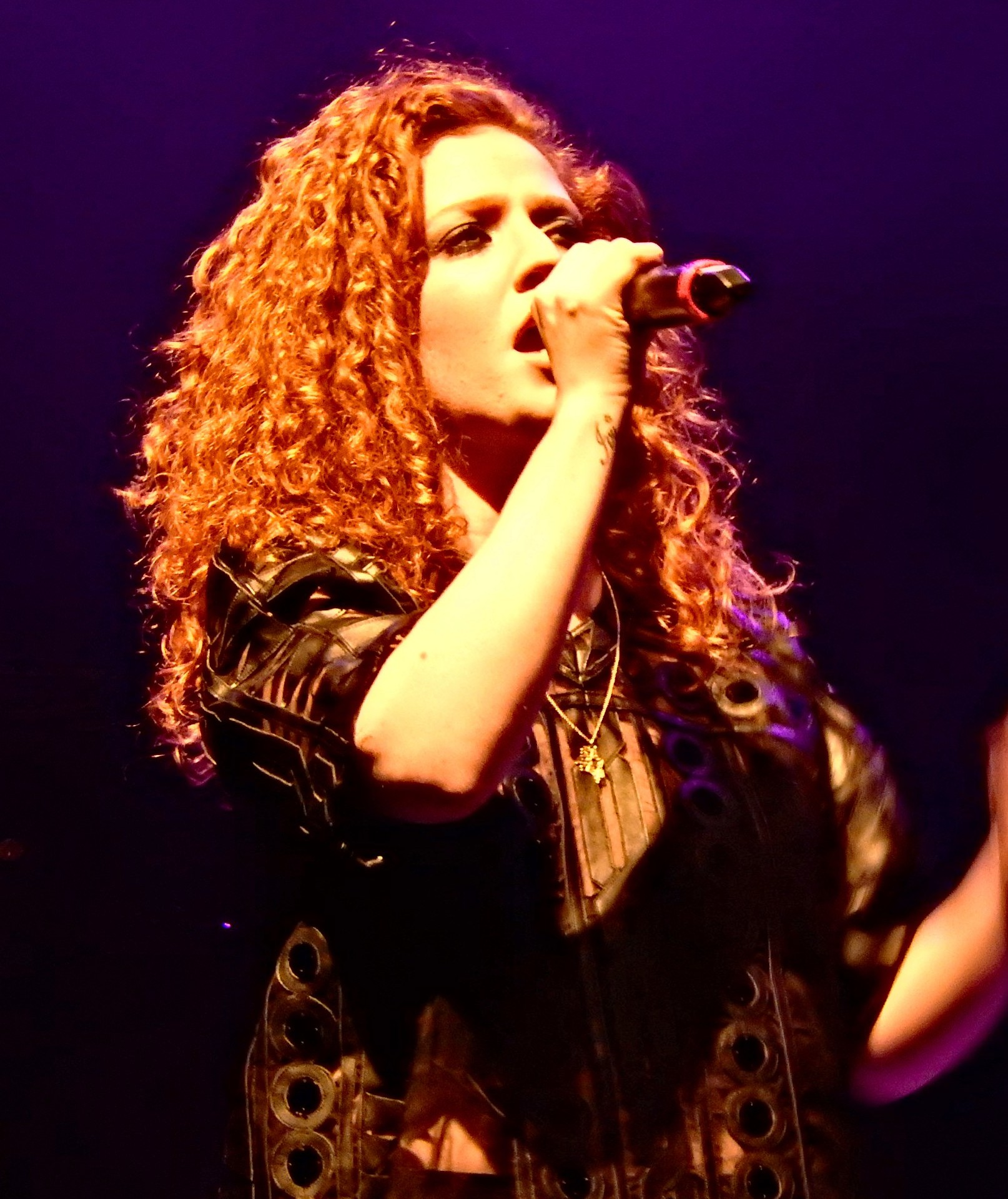 Jess Glynne (Ellie Goulding & Friends), O2 Shepherds Bush Empire